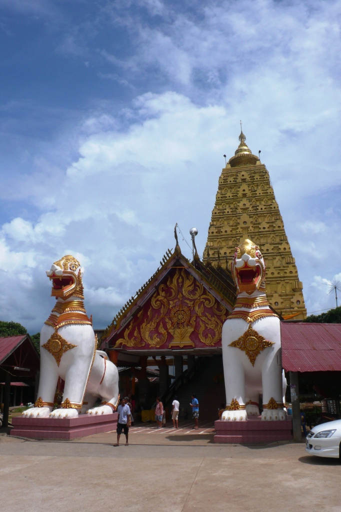 Wat Wang Wiwekaram in Sangkhlaburi, Kanchanaburi Province, Thailand.